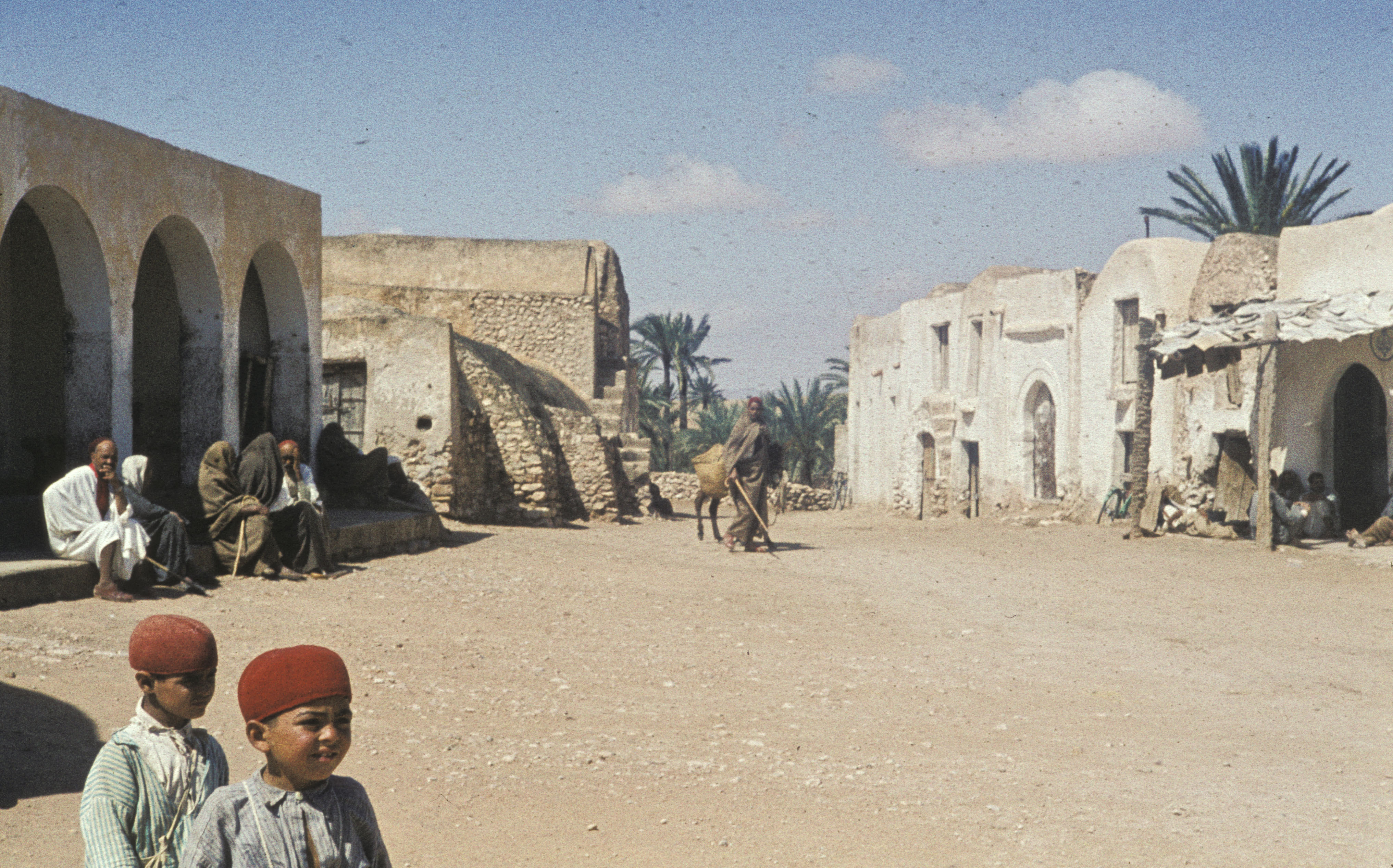 Tunisia (1960, locality unknown)